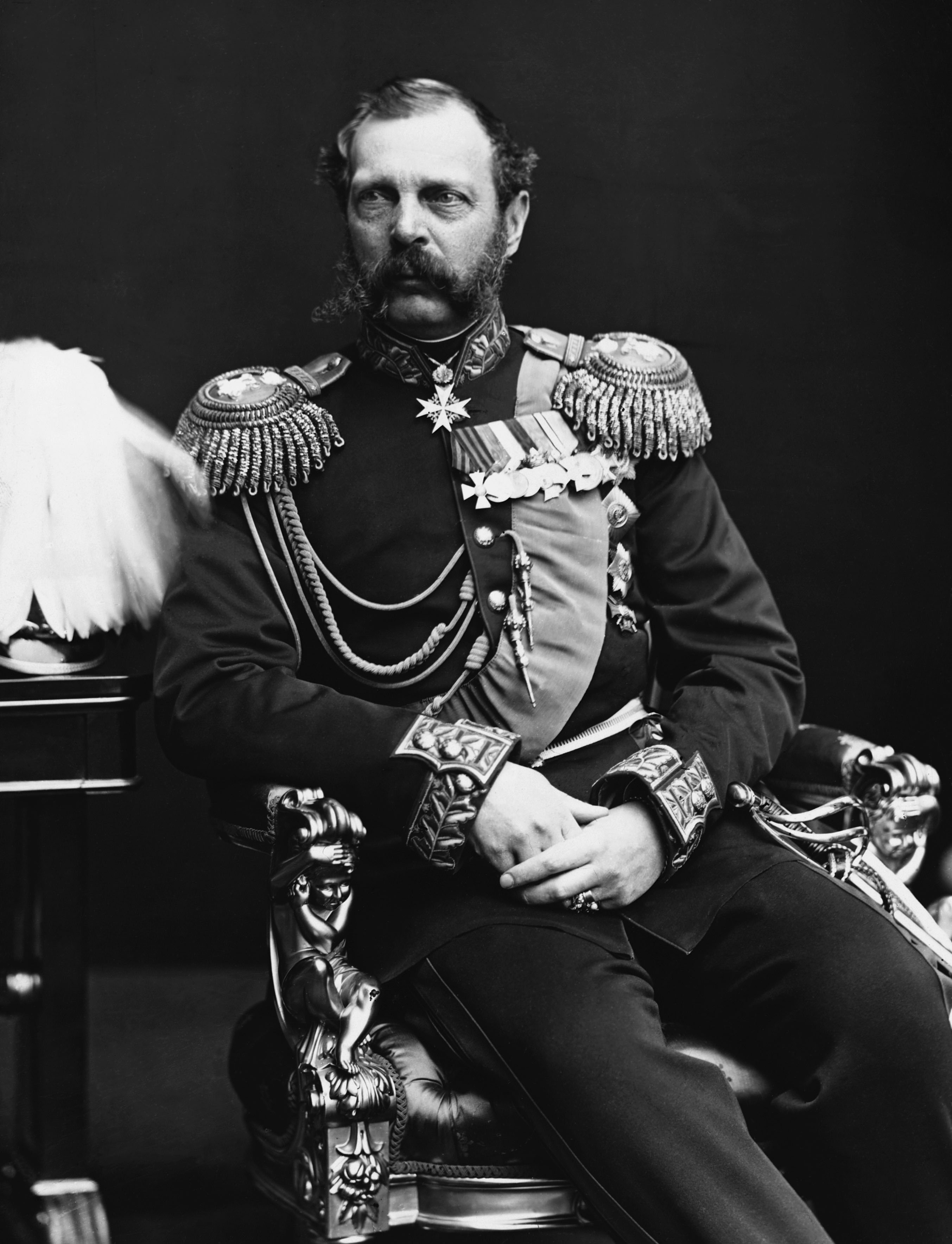 Czar Alexander II, National Archives of Canada, No. C-010136